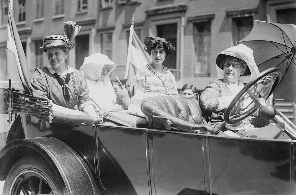 Bain News Service,, publisher. Mrs. Fitzgerald, Mrs. Blatch, Maggie Murphy, and Emma Bugby circa 1910-1913 [no date recorded on caption card] 1 negative : glass ; 5 x 7 in. or smaller. Notes: Title from unverified data provided by the Bain News Service on the negatives or caption cards. Forms part of: George Grantham Bain Collection (Library of Congress). Format: Glass negatives. Repository: Library of Congress, Prints and Photographs Division, Washington, D.C. 20540 USA, General information about the Bain Collection is available at Persistent URL: Call Number: LC-B2- 2771-10